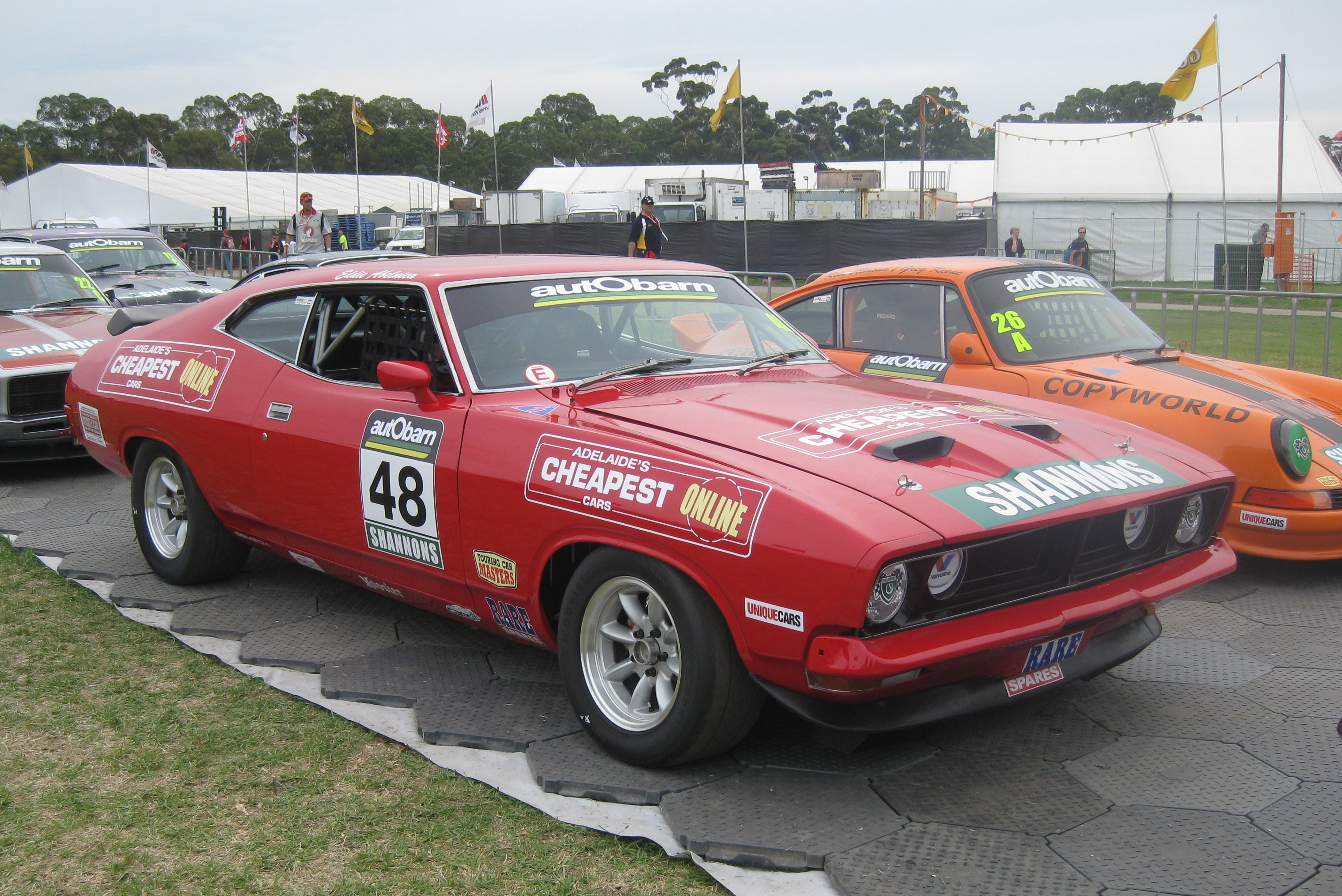 The Ford XB Falcon GT Hardtop of Eddie Abelnica at the Adelaide Parklands Circuit for the opening round of the 2011 Touring Car Masters